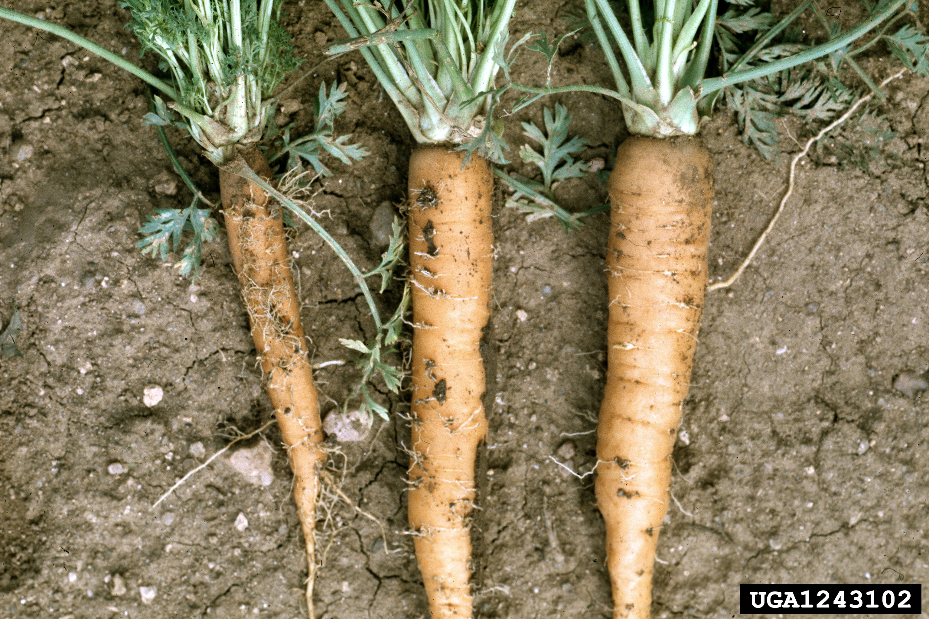 Photo of carrot roots showing symptoms of aster yellows phytoplasma infection